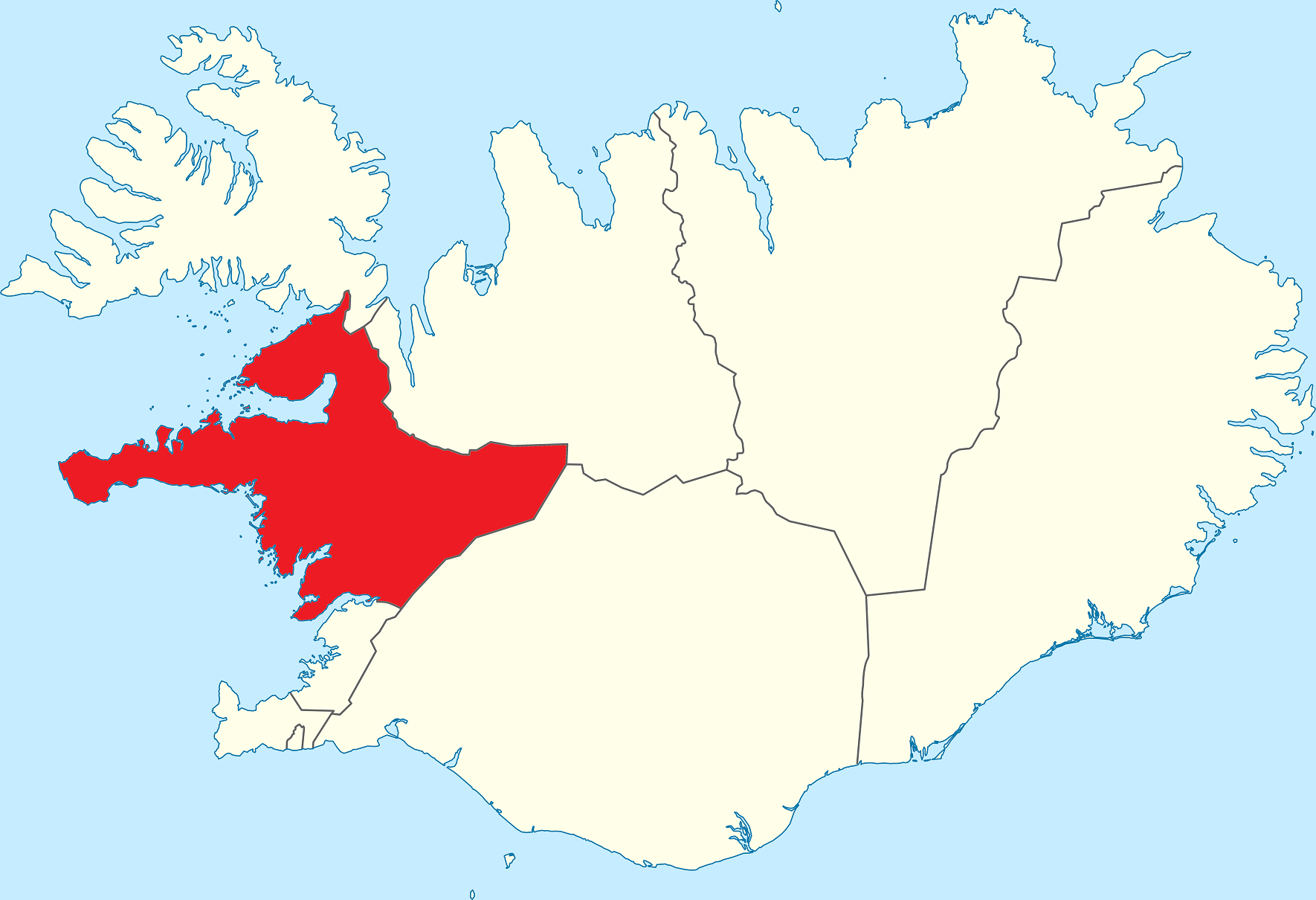 Vesturland region, highlighted within the counties as a whole.